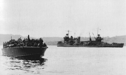 The U.S. Navy heavy cruiser USS New Orleans (CA-32) seen after the Battle of Tassafaronga near Tulagi on 1 December 1942. The PT boat in the foreground is carrying survivors from the USS Northampton (CA-26).